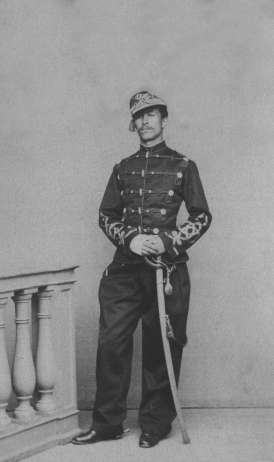 Photograph of Nicolae Dunca (1837 in Șieu, Transylvania, Romania - 1862 in Rockingham County, Virginia, USA), captain of the 12th New York Infantry Regiment.